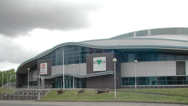 Manchester Velodrome is the United Kingdom's leading indoor Olympic-standard cycle track and was used to host the track cycling events in the 2002 Commonwealth Games. The track has a reputation for quick times; as of December 24, 2005, twelve current cycling world records were set at the Velodrome, including Chris Boardman's World Hour Record and the 4000 m pursuit record set by the Australian men's team.